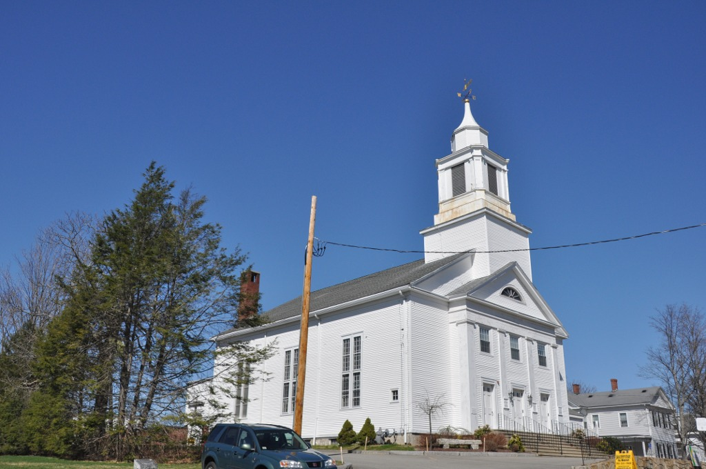 The First Church in Weymouth, part of the Weymouth Meeting House Historic District of Weymouth, Massachusetts.